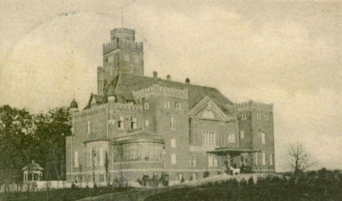 Manor house in Miłowice (before 1945 Mildenau)